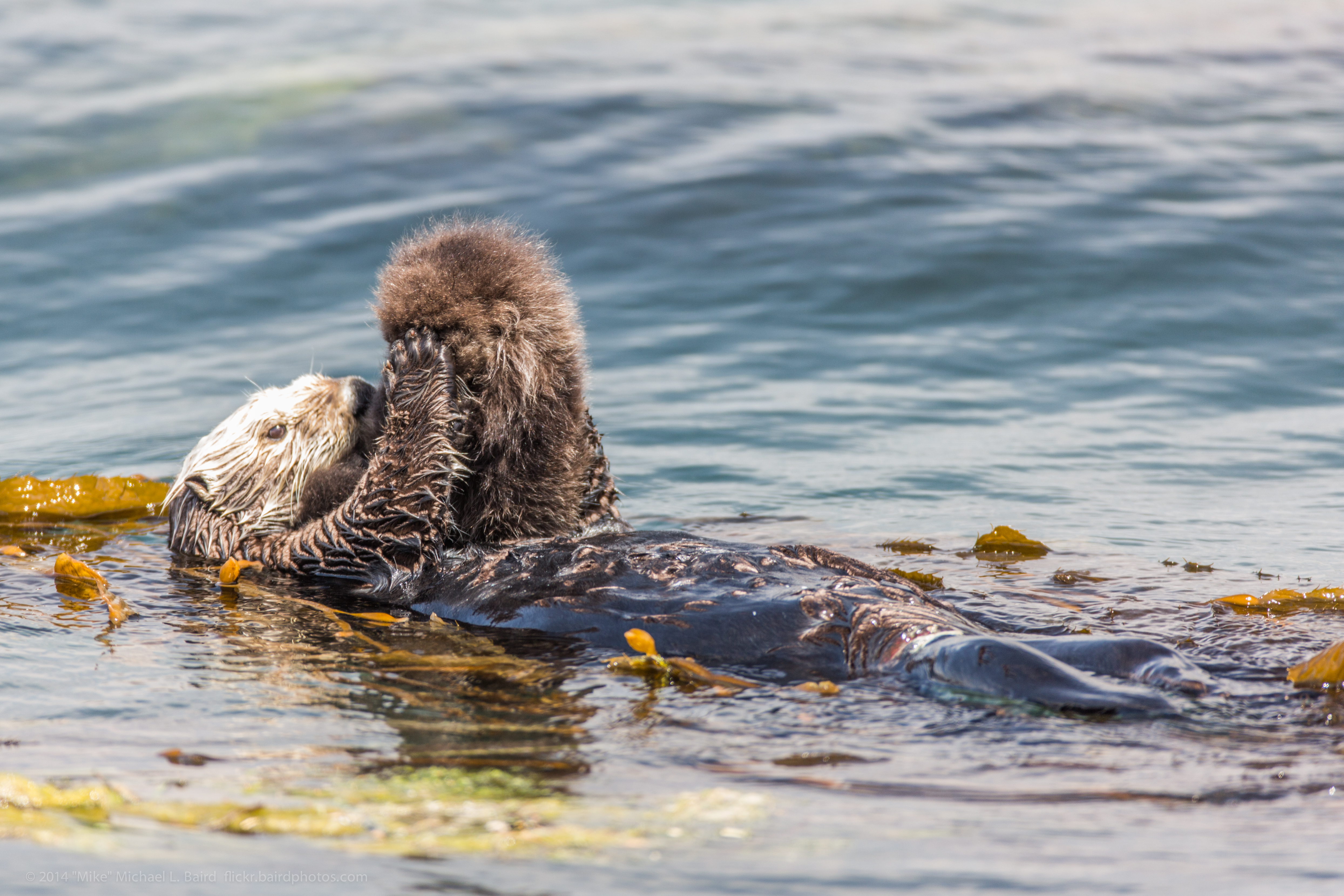 A newborn baby Sea Otter, Enhydra lutris, appeared near Target Rock adjacent to Morro Rock, in Morro Bay, CA, around noon on Thursday, May 29, 2014. The mother Sea Otter, floating on her back, was constantly preening and massaging her newborn pup who was propped up on her tummy. The Sea Otter (Enhydra lutris) is a marine mammal native to the coasts of the northern and eastern North Pacific Ocean. Our colony here in Central California is one of the more robust and vibrant on the California coast. More info on sea otters can be found at where several other of my Sea Otter images are published by others on Wikipedia. Photo © 2014 “Mike” Michael L. Baird, mike {at] mikebaird d o t com, , Canon 5D Mark III, with Canon 600mm f/4 telephoto lens, with circular polarizer filter on a GZGT5540LS Gitzo tripod with Wimberley Head II with leveling base, IS on. GPS encoding and compass direction realtime from an on-camera Canon GP-E2 GPS Receiver. No flash used. You are free to use this photo, but please attribute and link back to this image page so that others may enjoy the original full resolution version, and view other images in the series. Please leave a comment linking to your work. See access, attribution, and commenting recommendations at - Please add comments/notes/tags to add to or correct information, identification, etc. Please, no comments or invites with badges, images, multiple invites, award levels, flashing icons, or award/post rules. Thanks to April Collins for the timely reporting of this subject. keywords: Sea Otter, Enhydra lutris, mammal, preening, nursing, newdorn, pup, baby, mother, mom and pup, mother and pup, mom and baby, mother and baby, marine mammal, Morro Bay, 29May2014